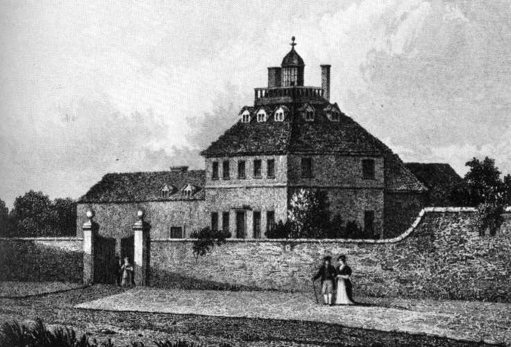 Portrait of Edial Hall School